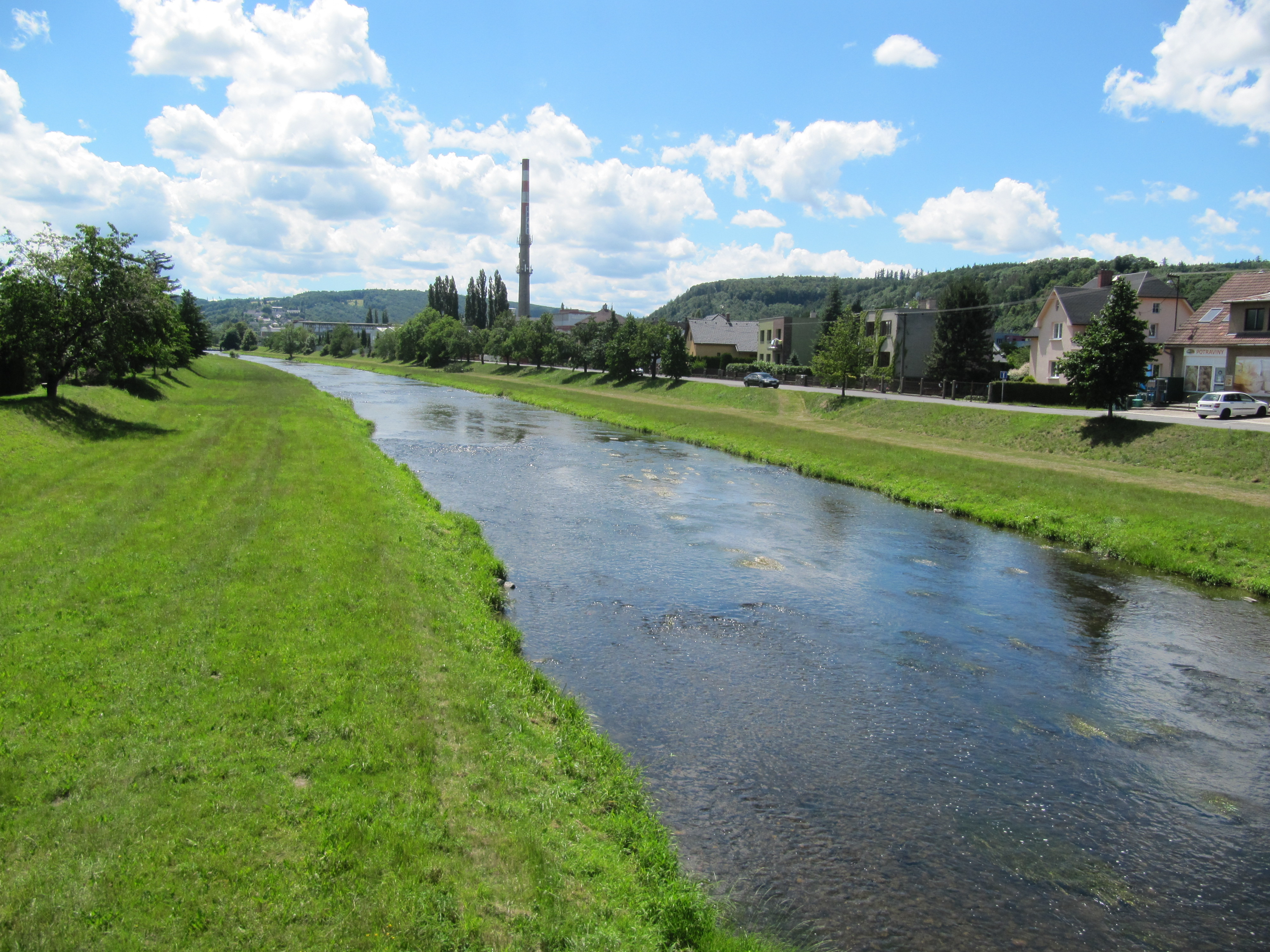 Branka u Opavy, Opava District, Czech Republic. Moravice River.